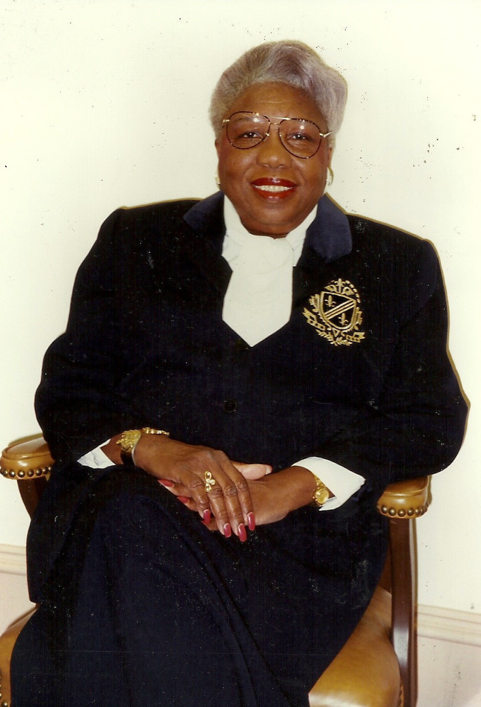 Willye Dennis sitting